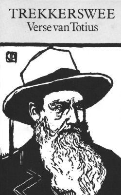 Front page